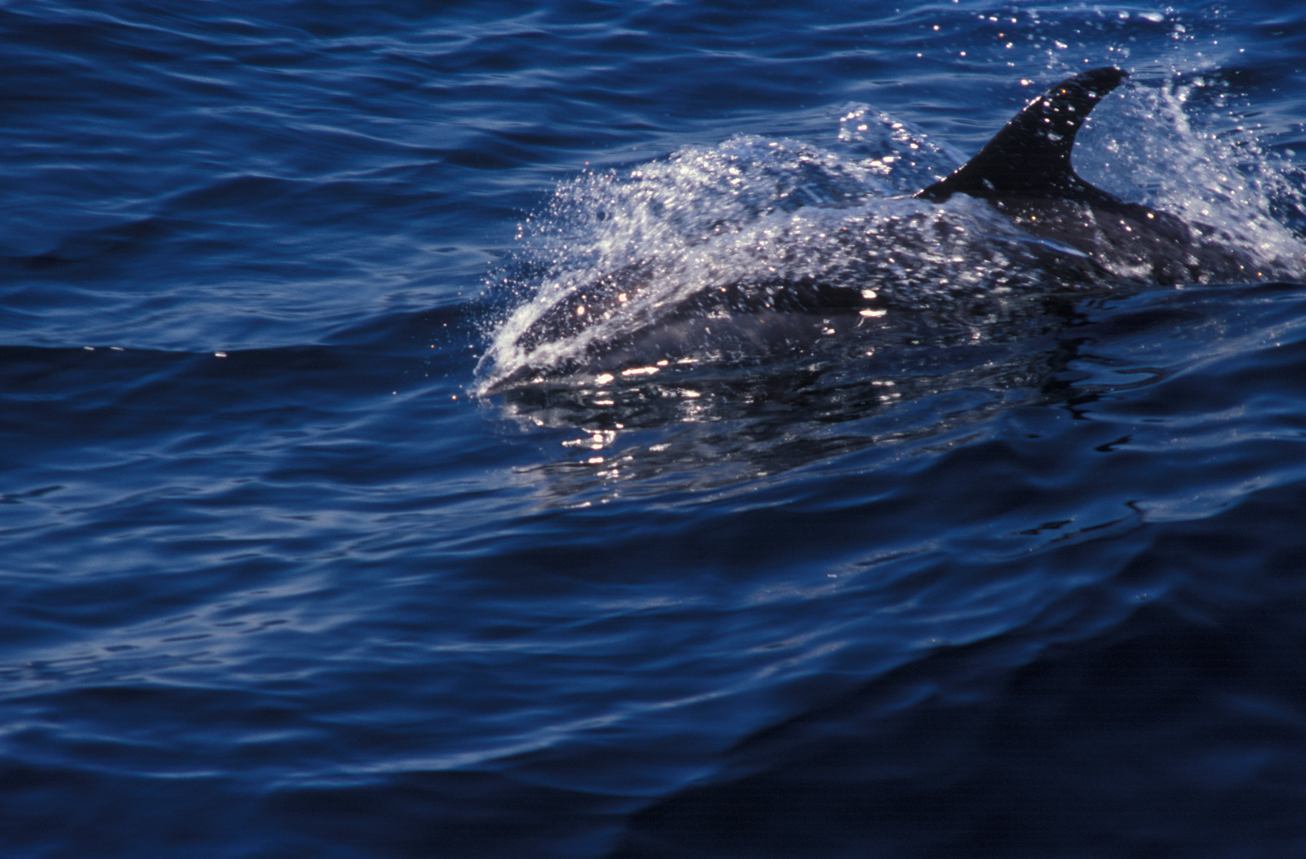 Atlantic white-sided dolphin (Lagenorhynchus acutus).